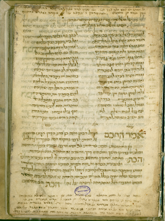 First page of a manuscript containing one of Maimonides’ commentaries on the Mishnah, the first major work of Rabbinic Judaism. The commentary is on the tractate Avot (Ethics of the fathers), in which Maimonides expounded on morality and the nature of man’s soul, with an introduction (Shemonah perakim) (Eight chapters).